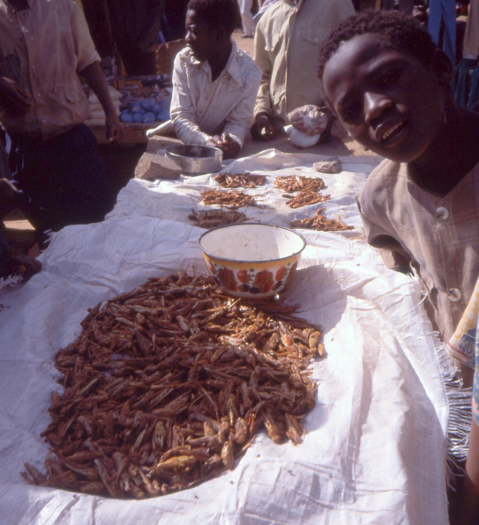 Fried grasshoppers at the market of Agadez, Niger, 1991